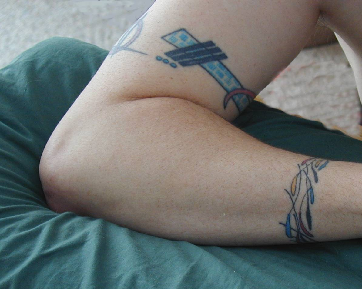 abstract theme of tattoo.